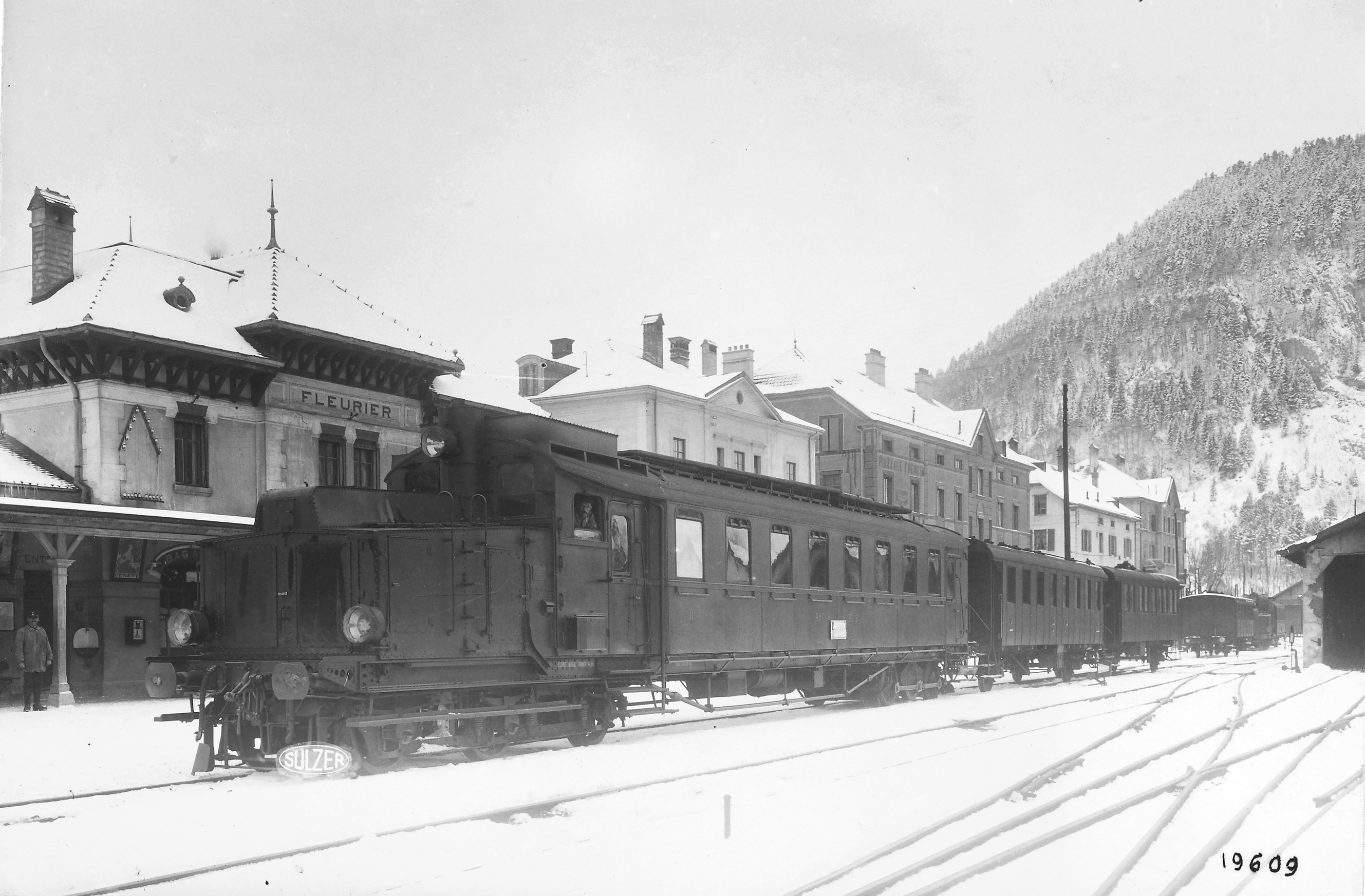 Both motor coaches BCm 2/5 8 and 9 of the railway Régional du Val-de-Travers in Fleurier, November 1929.